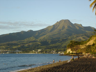 Mount Pelée in Martinique seen from Le Carbet.